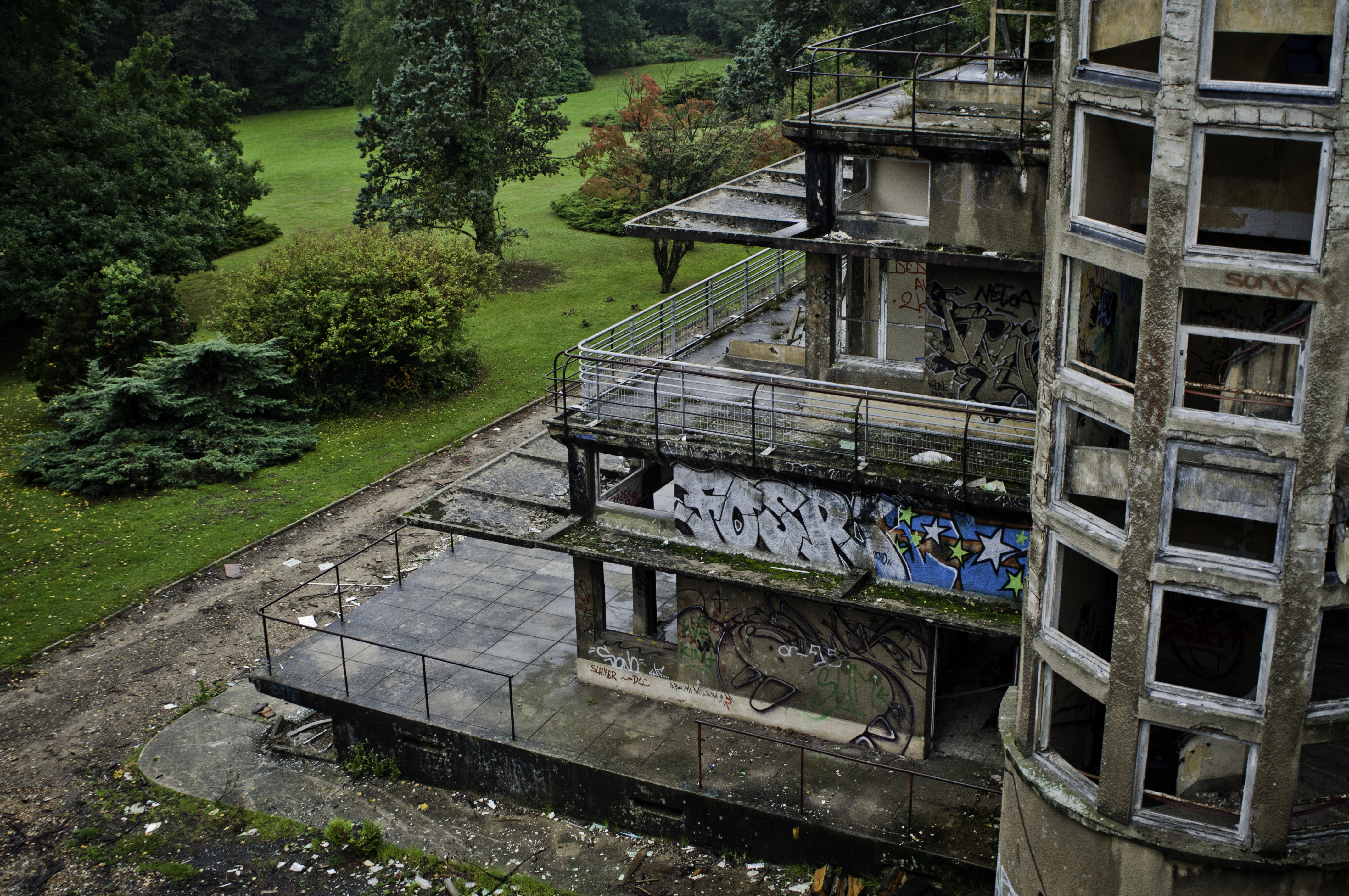 disaffected sanatorium at Aincourt (France)